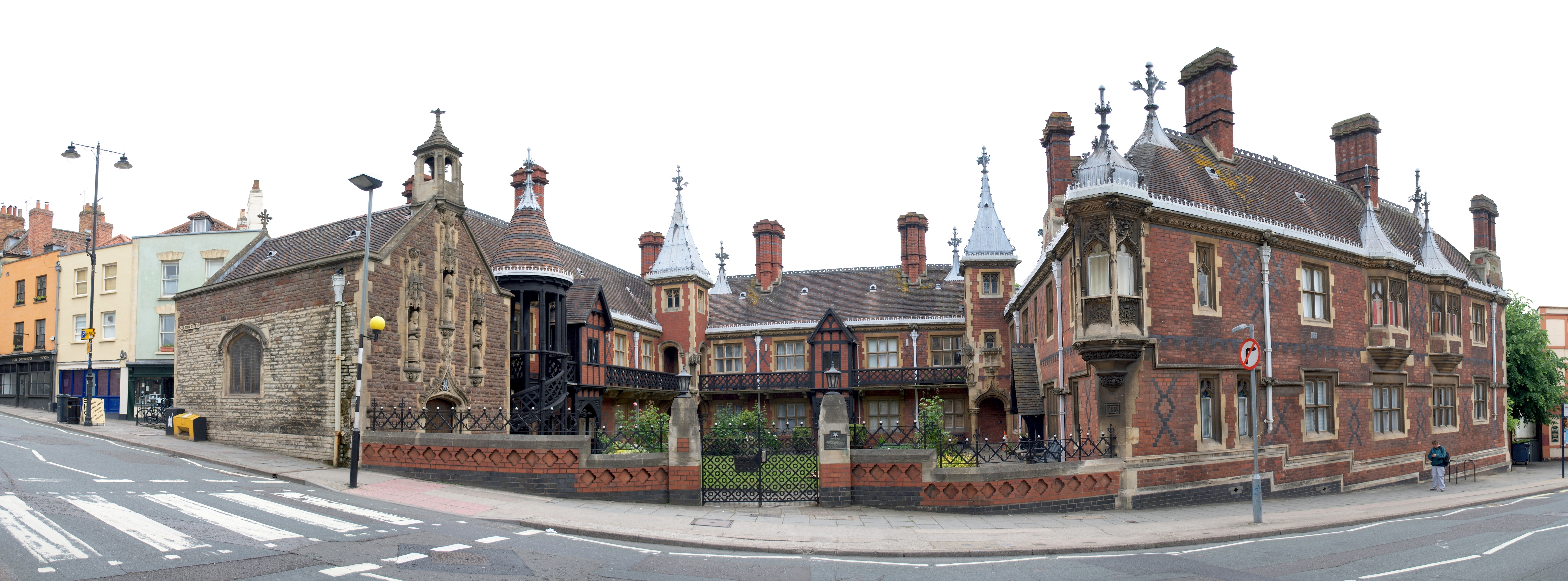 Foster's Almshouses, Bristol. The Chapel of the Three Kings of Cologne can also be seen on the left.